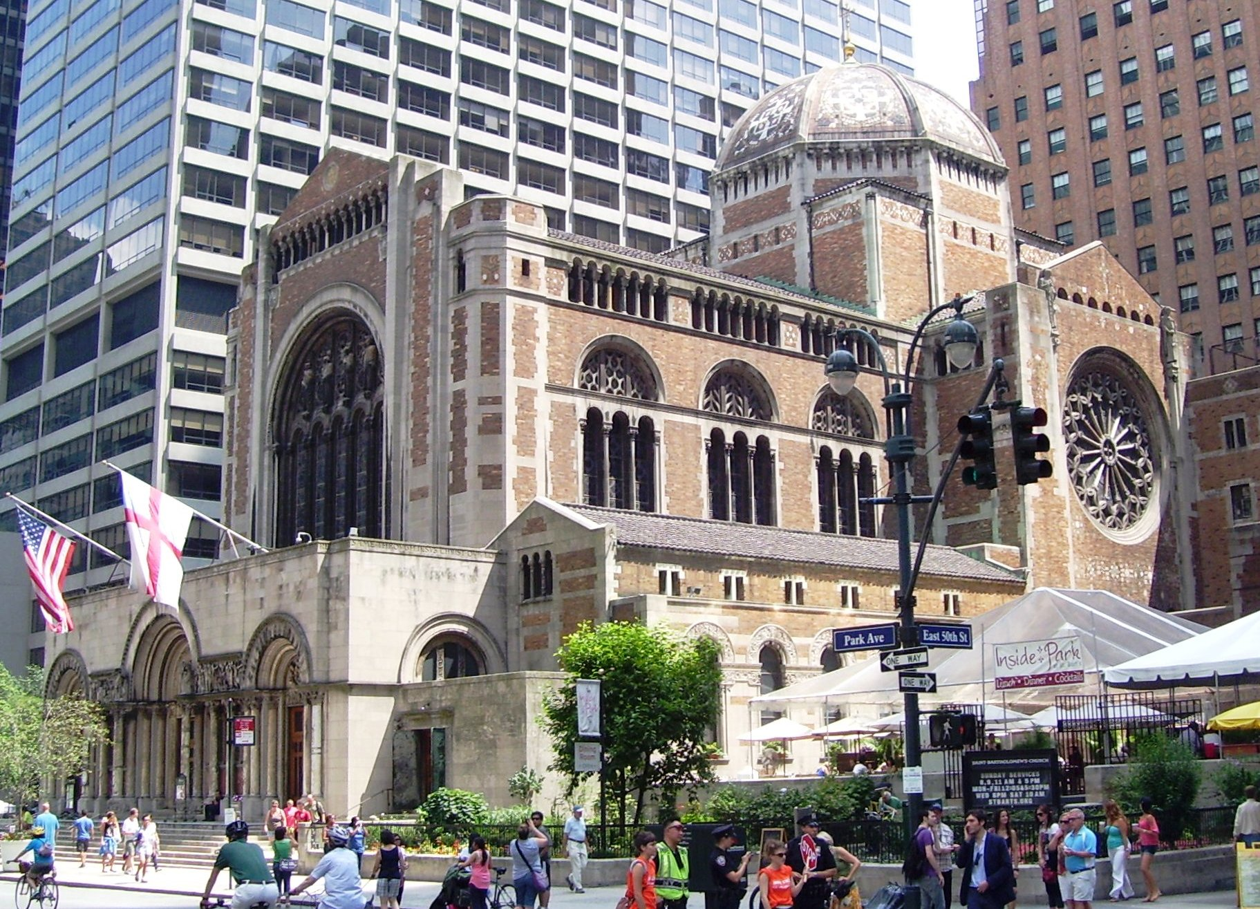 St. Bartholomew's Church on Park Avenue between East 51st and East 52nd Street in Midtown Manhattan, New York City during "Summer Streets", when seven miles of streets are closed to vehicular traffic, including Park Avenue from 14th to 72nd Streets.